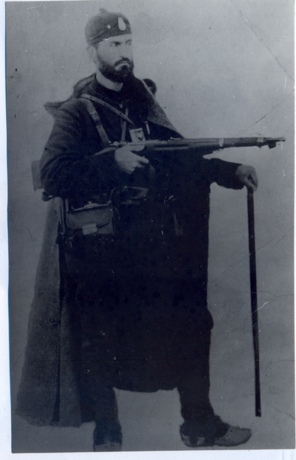 Portrait of Todor Alexandrov.